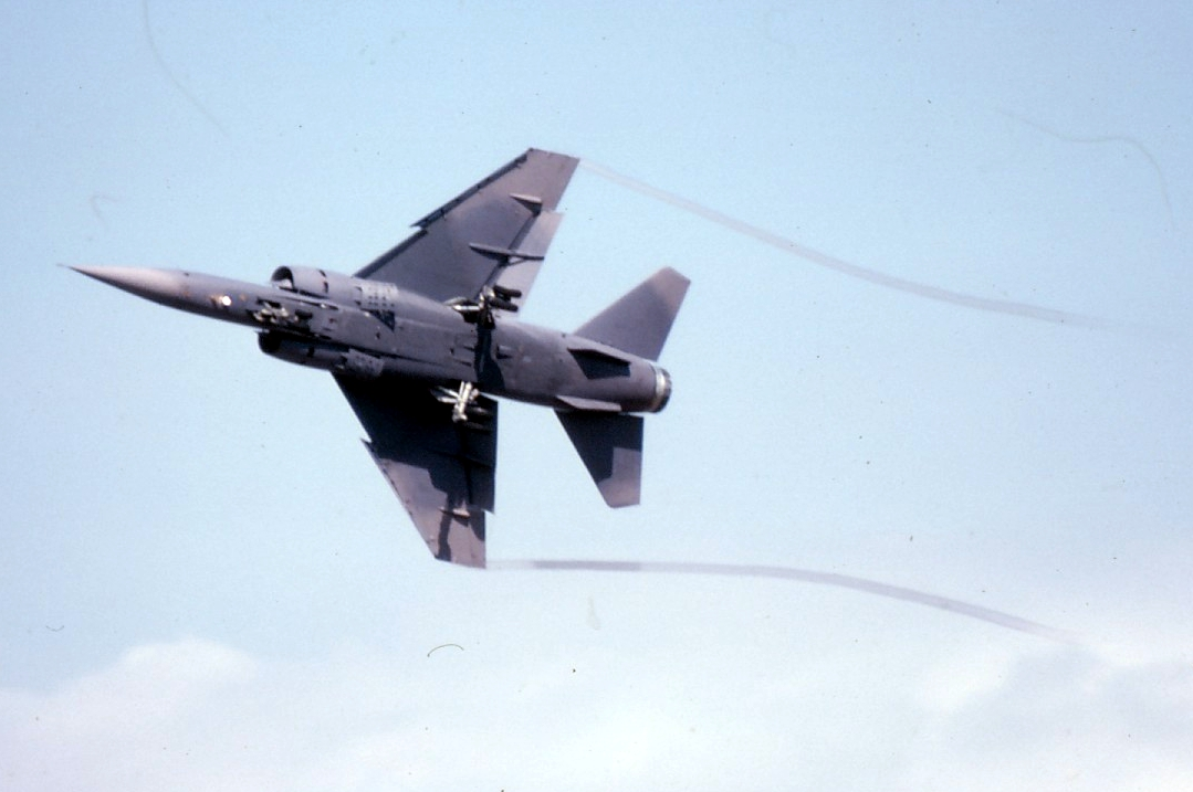 Mirage F1CZ at AFB Ysterplaat air show, flown by Major Dries Wehmeyer